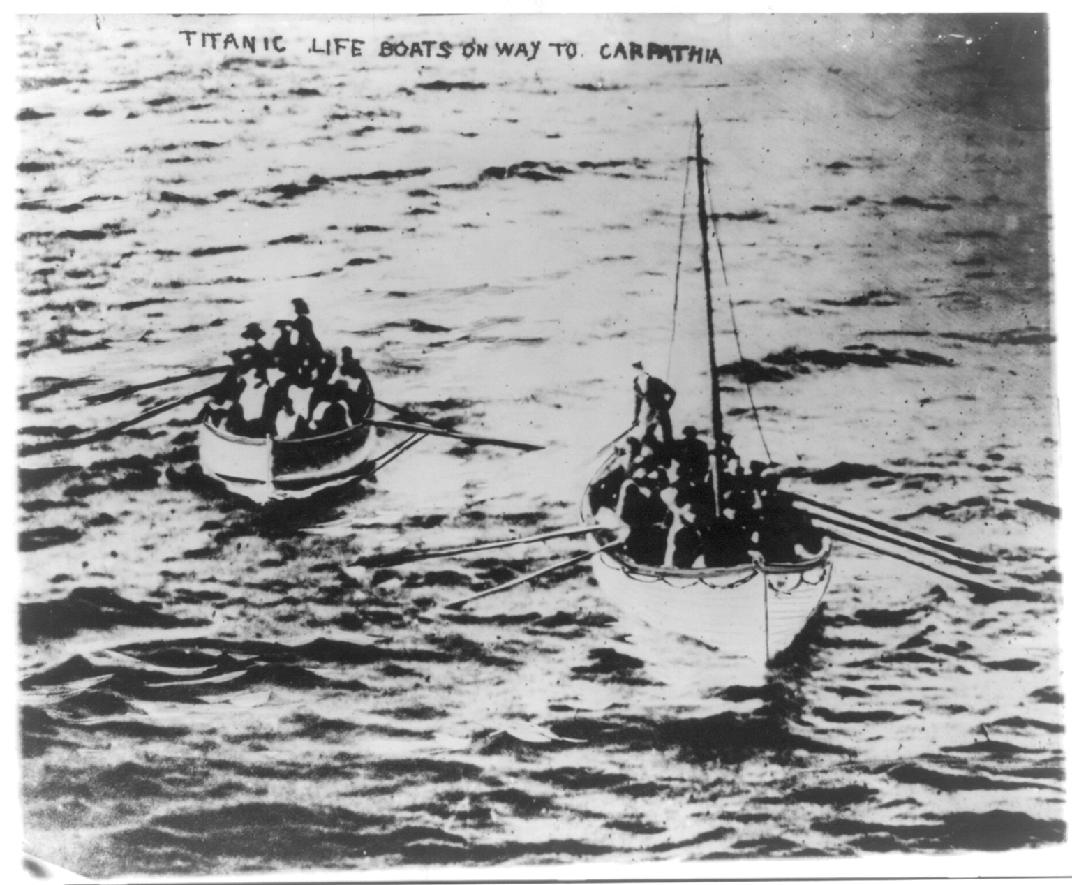 TITANIC life boats on way to CARPATHIA